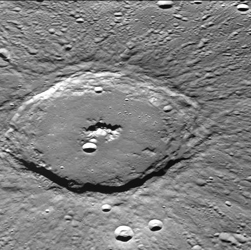 Oblique view of Stieglitz crater on Mercury. MESSENGER WAC. Emission Angle: 48.0 Incidence Angle: 76.1 Latitude: 72.4 Longitude: 68.4 Phase Angle: 28.1